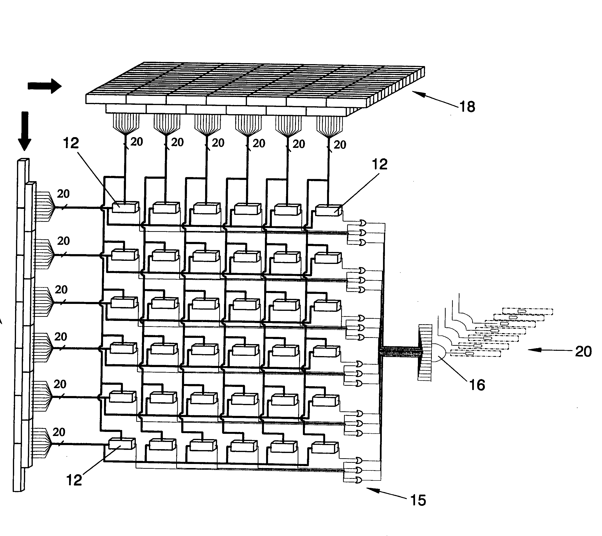 Complete circuit of Hamiltonian path problem